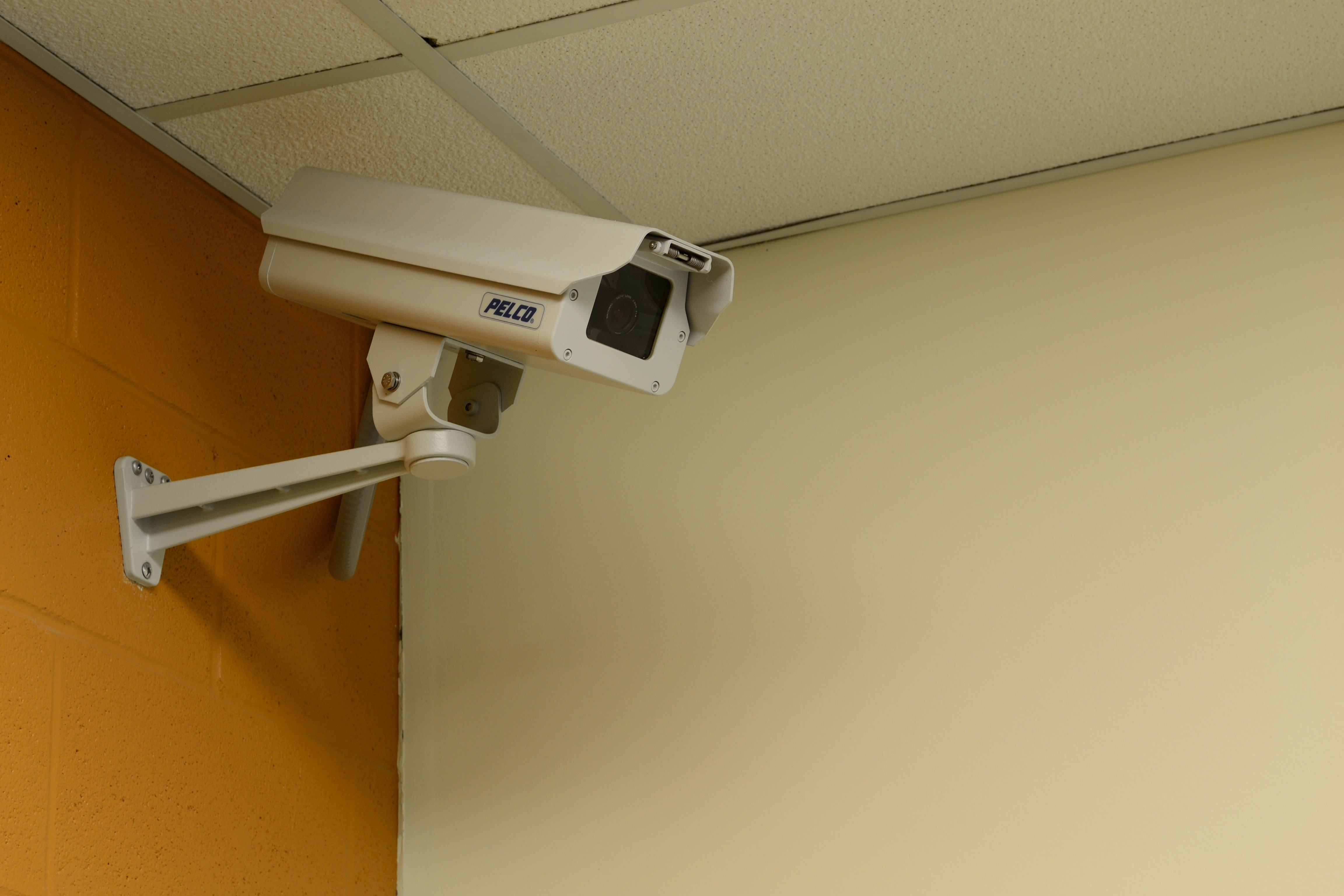 An indoor CCTV.